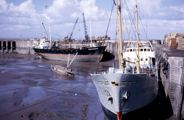 Watchet harbour towards the end of its days as a commercial port, and before it was converted into a marina. For more information see the Wikipedia article Watchet.